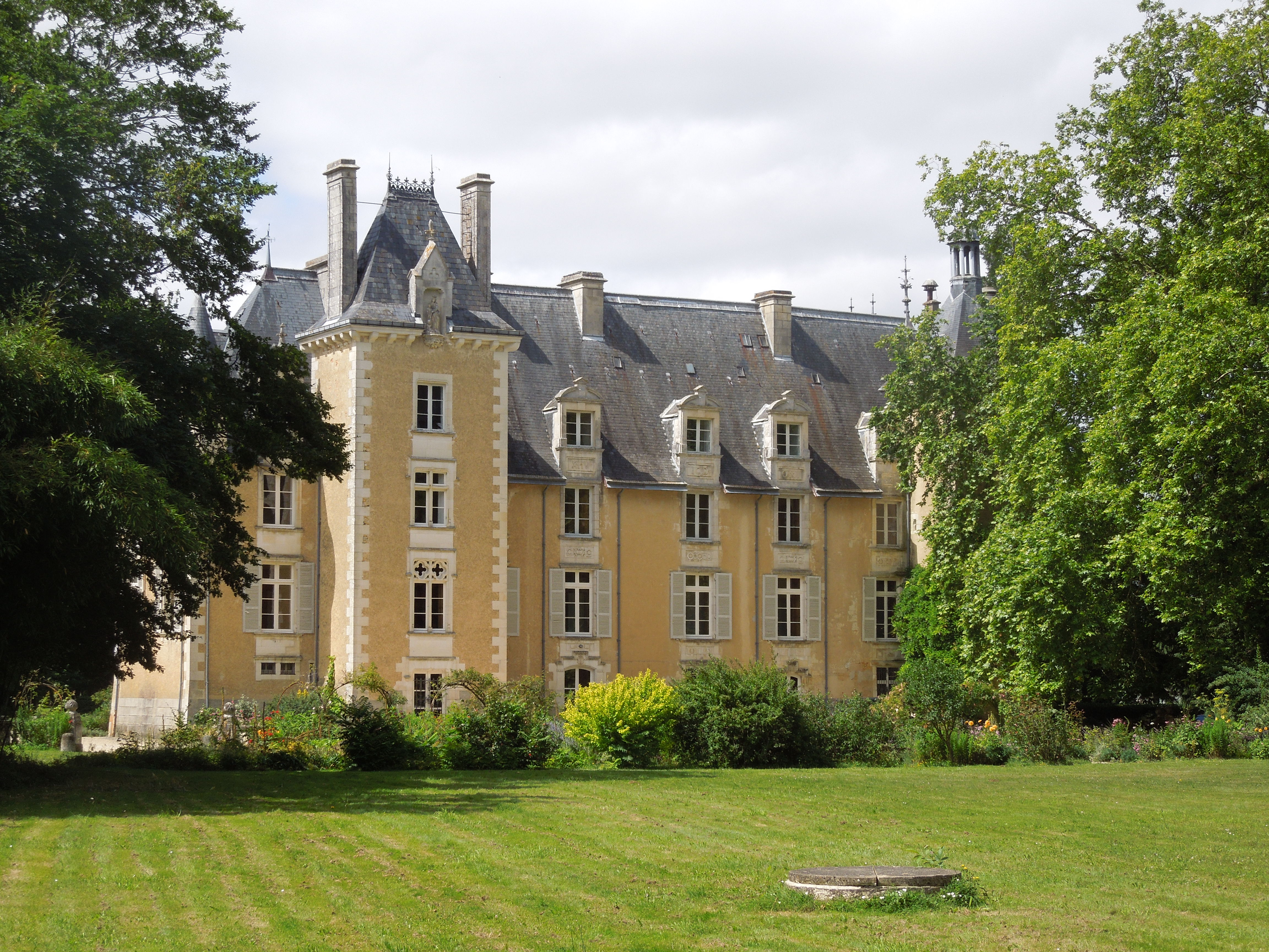 Chateau St. Julien from the East (17 July 2012)